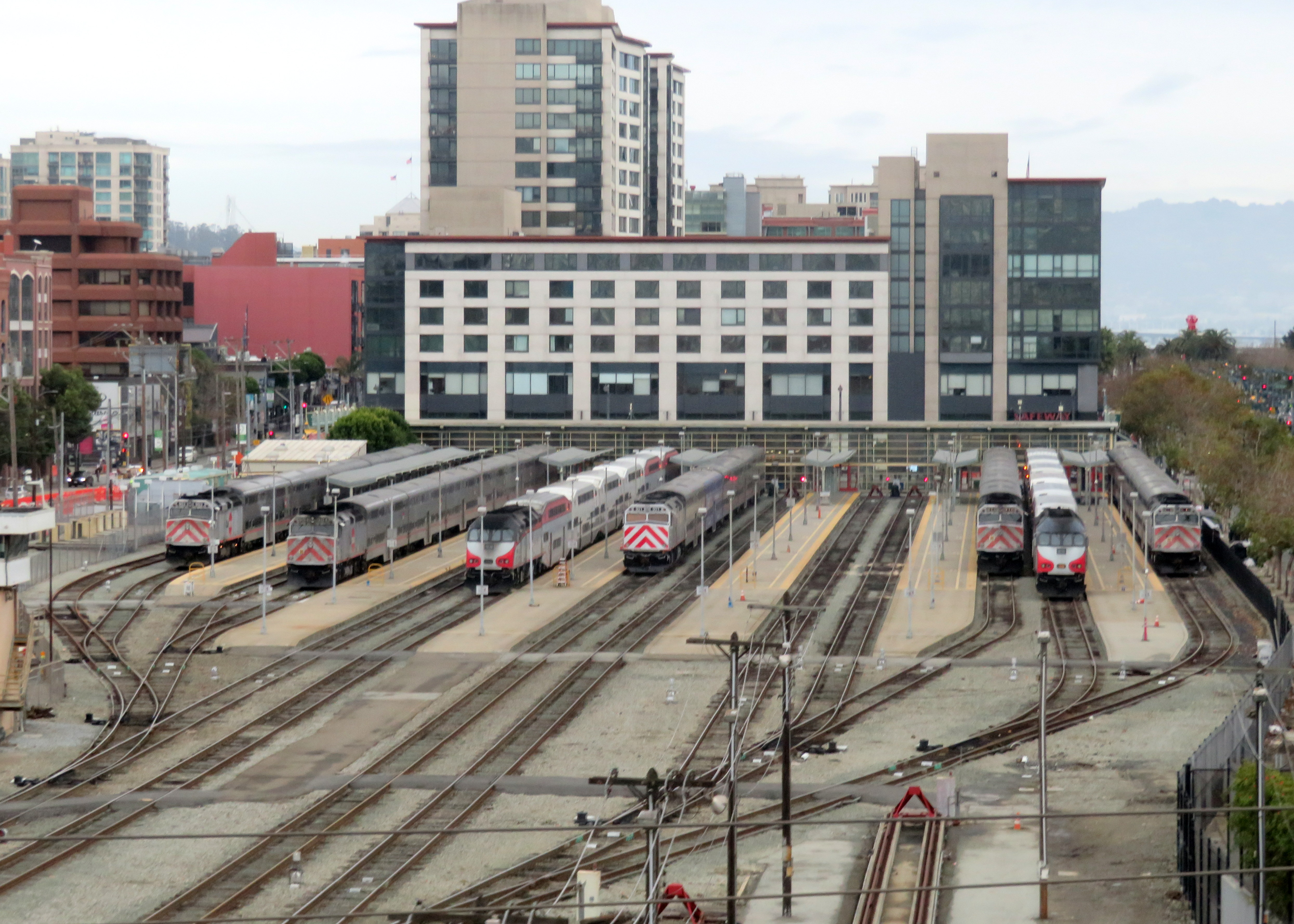 4th and King Street station viewed from the I-280 ramp to 6th Street in December 2019